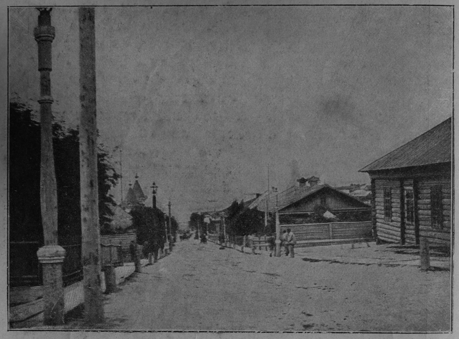 Korsakovsk on the south of Sakhalin